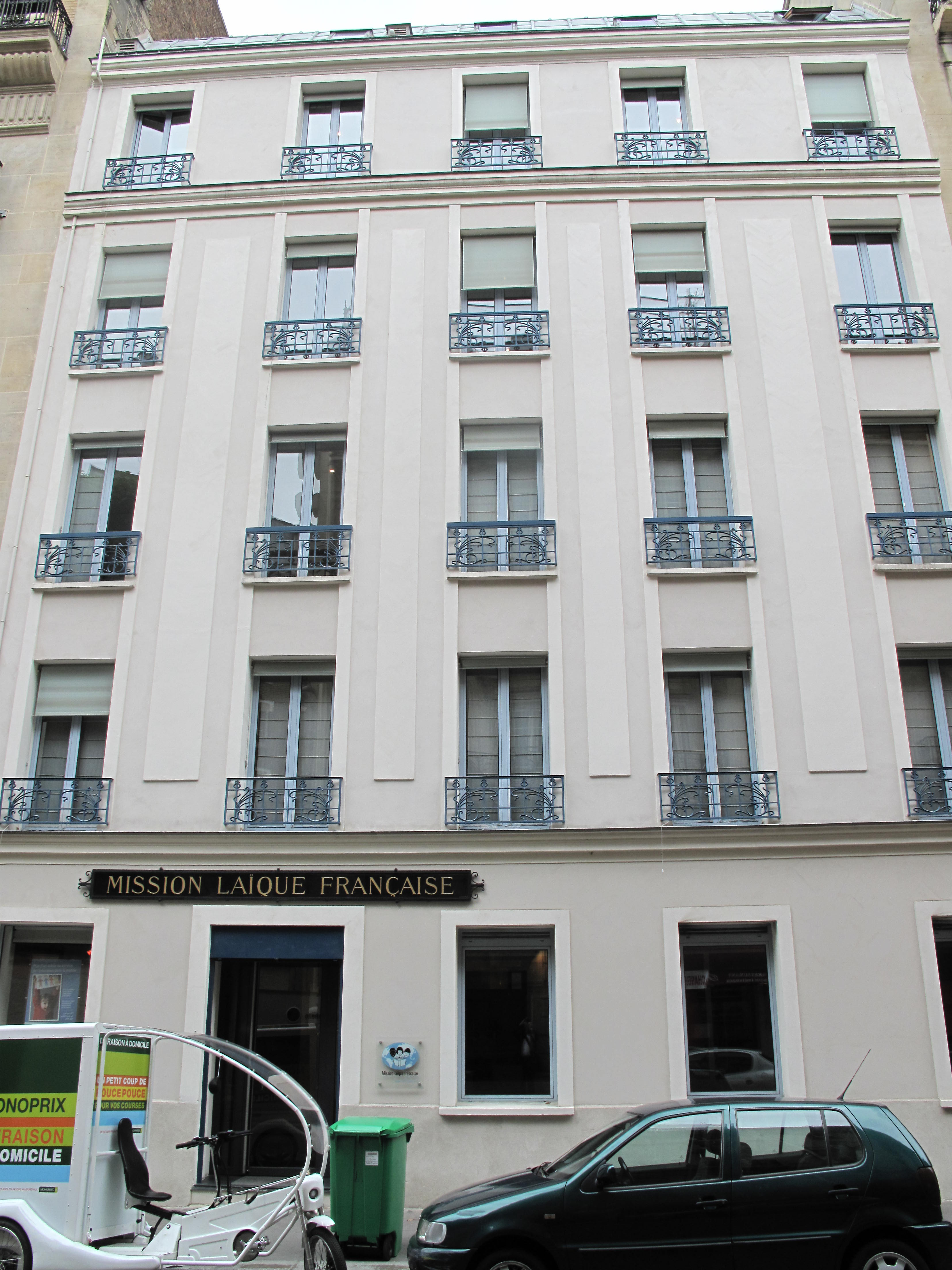 Mission laïque française - Building of 9 rue Humblot, Paris 15th arrond., France